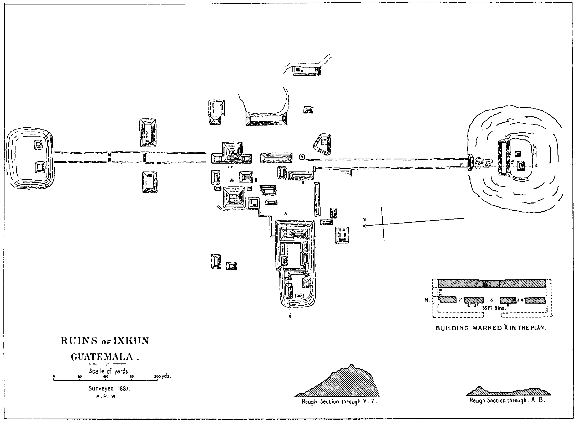 Map of the Maya ruins of Ixkun, near Dolores, Peten, Guatemala, taken from p.174. of A Glimpse at Guatemala and Some Notes on the Ancient Monuments of Central America by Anne Cary Maudslay and Alfred Percival Maudslay, published in 1899.